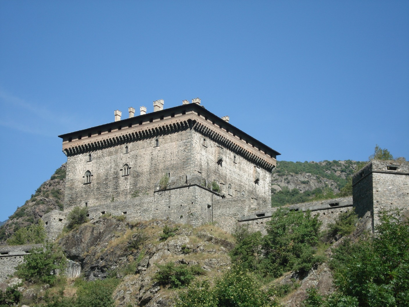 Verres castle in Aosta Valley